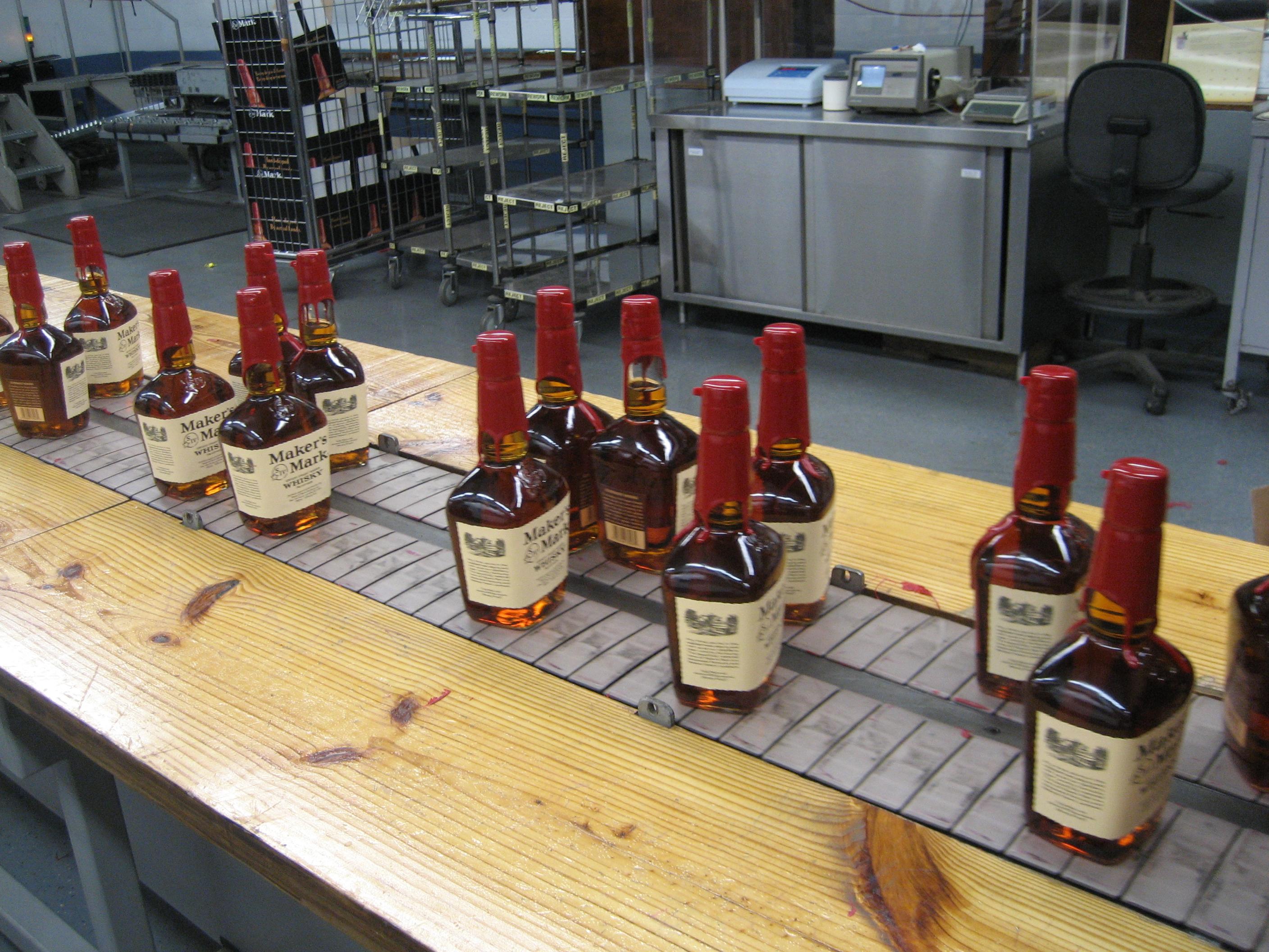 Maker's Mark production line, just after being dipped in red wax